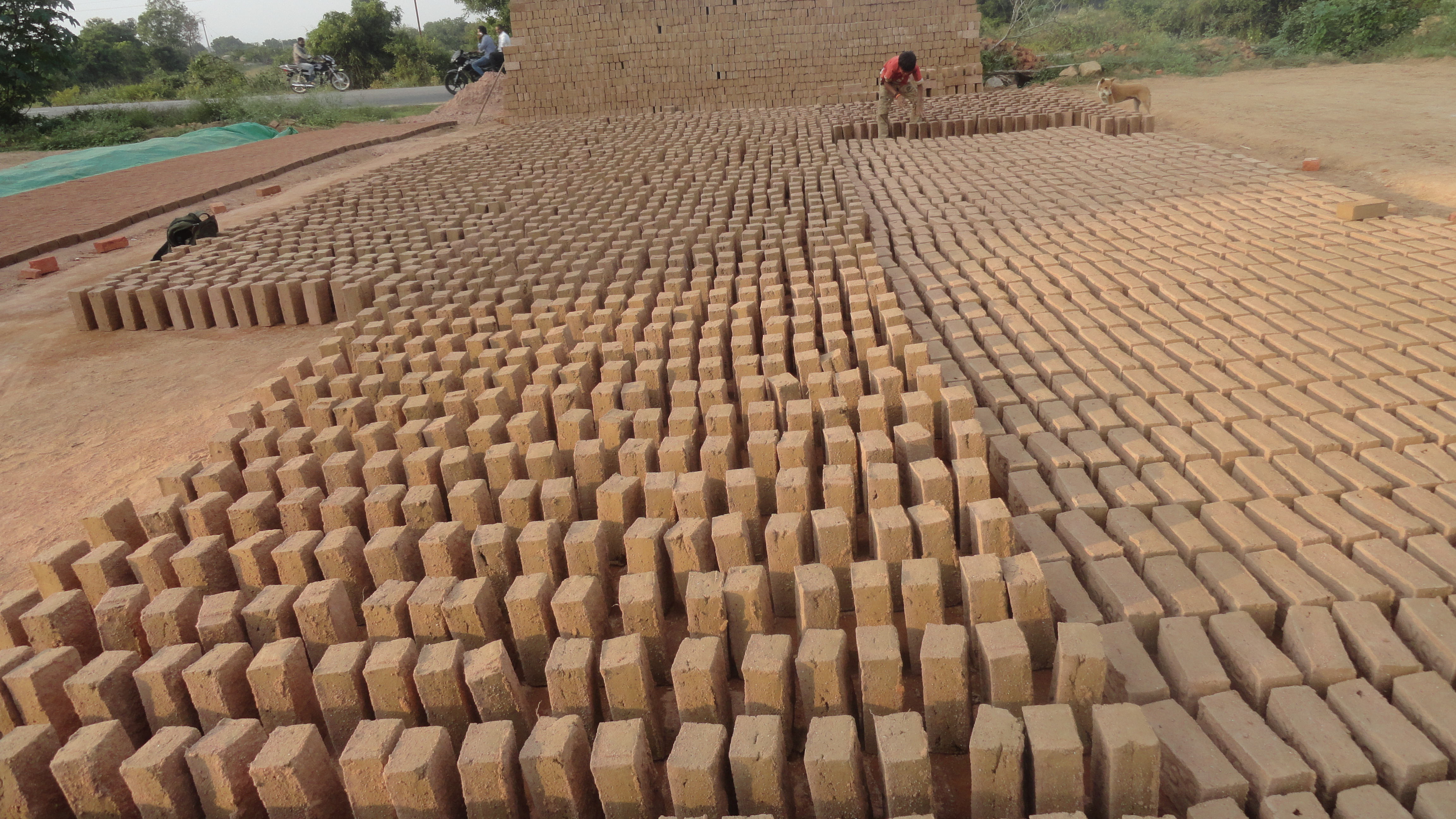 Making of bricks in chittoor dist. of Andhra pradesh.